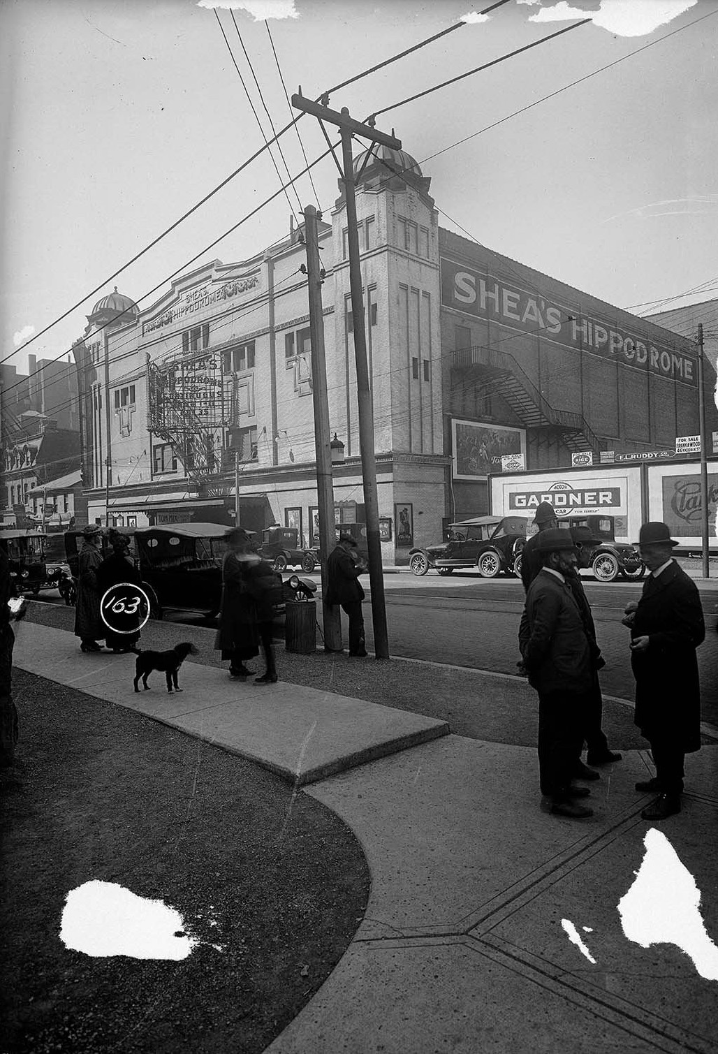 Shea's Hippodrome, Albert and Terauley (now Bay) streets, opposite (now Old) City Hall (opened 1907, demolished March 1957 to make way for the new City Hall). One the largest vaudeville theatres in the world. (Toronto, Canada).